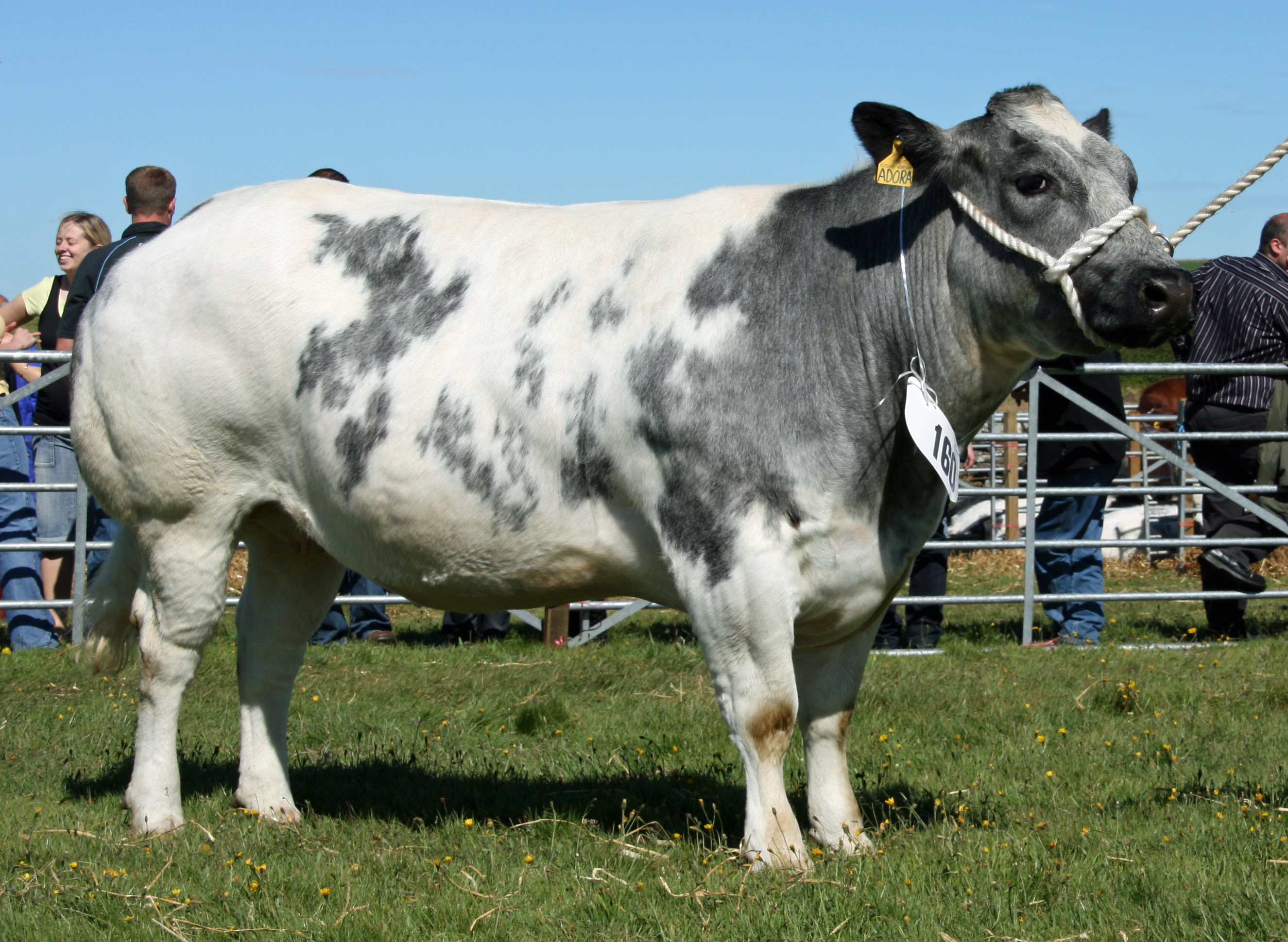 A young Belgian Blue heifer at a livestock show in Orkney.